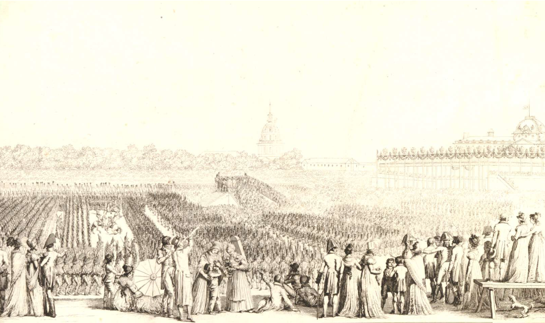 Napoleon on podium, troops in parade order and onlookers at the Champ de Mai in 1815